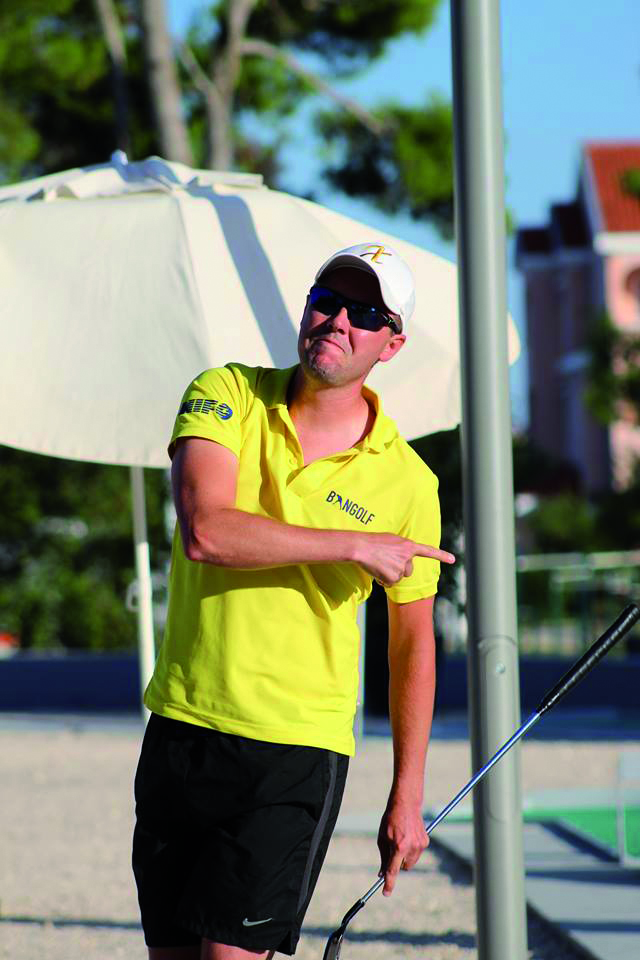 Fredrik Persson, världsmästare i bangolf 2017